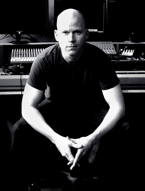 Studio photo taken of Michael McCann, May 2010.